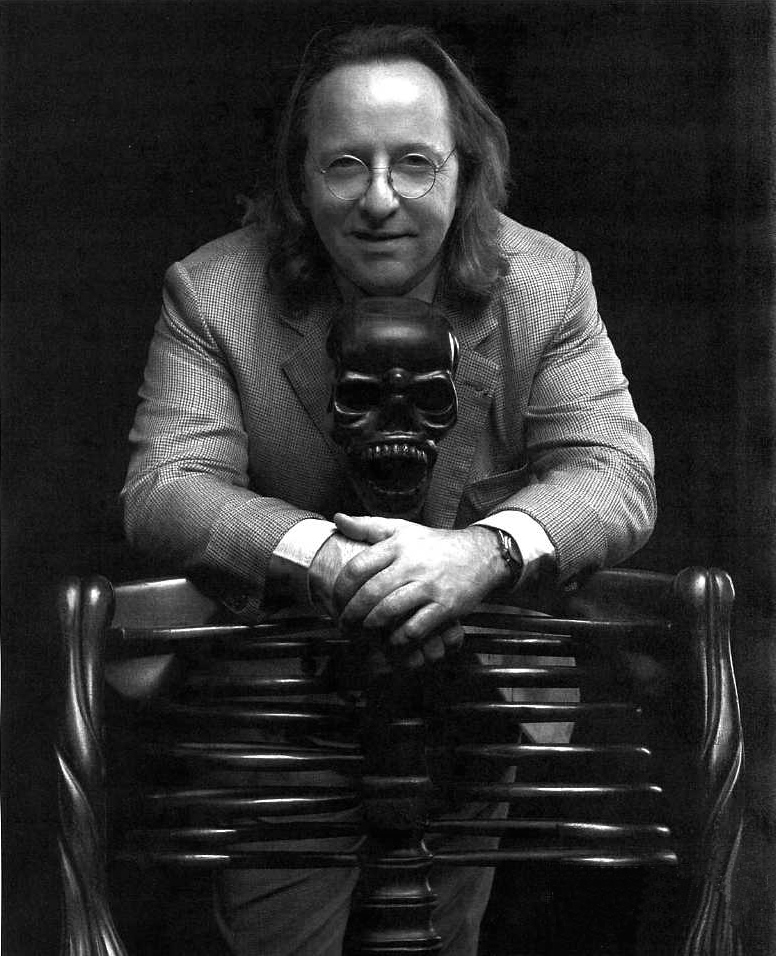 Bill Pallot by Karl Lagerfeld in 2013 in La Gazette Drouot